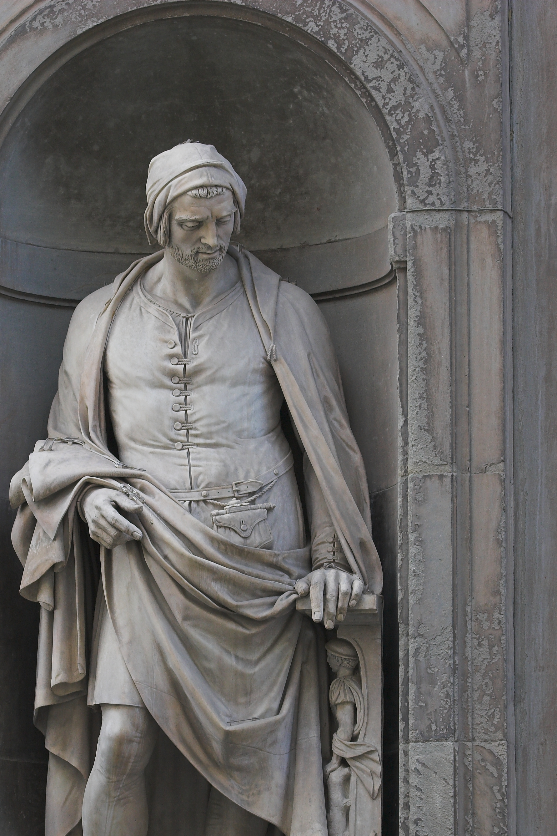 Nicola Pisano at the Uffizi Gallery, Florence, Italy. Photo by Thermos.